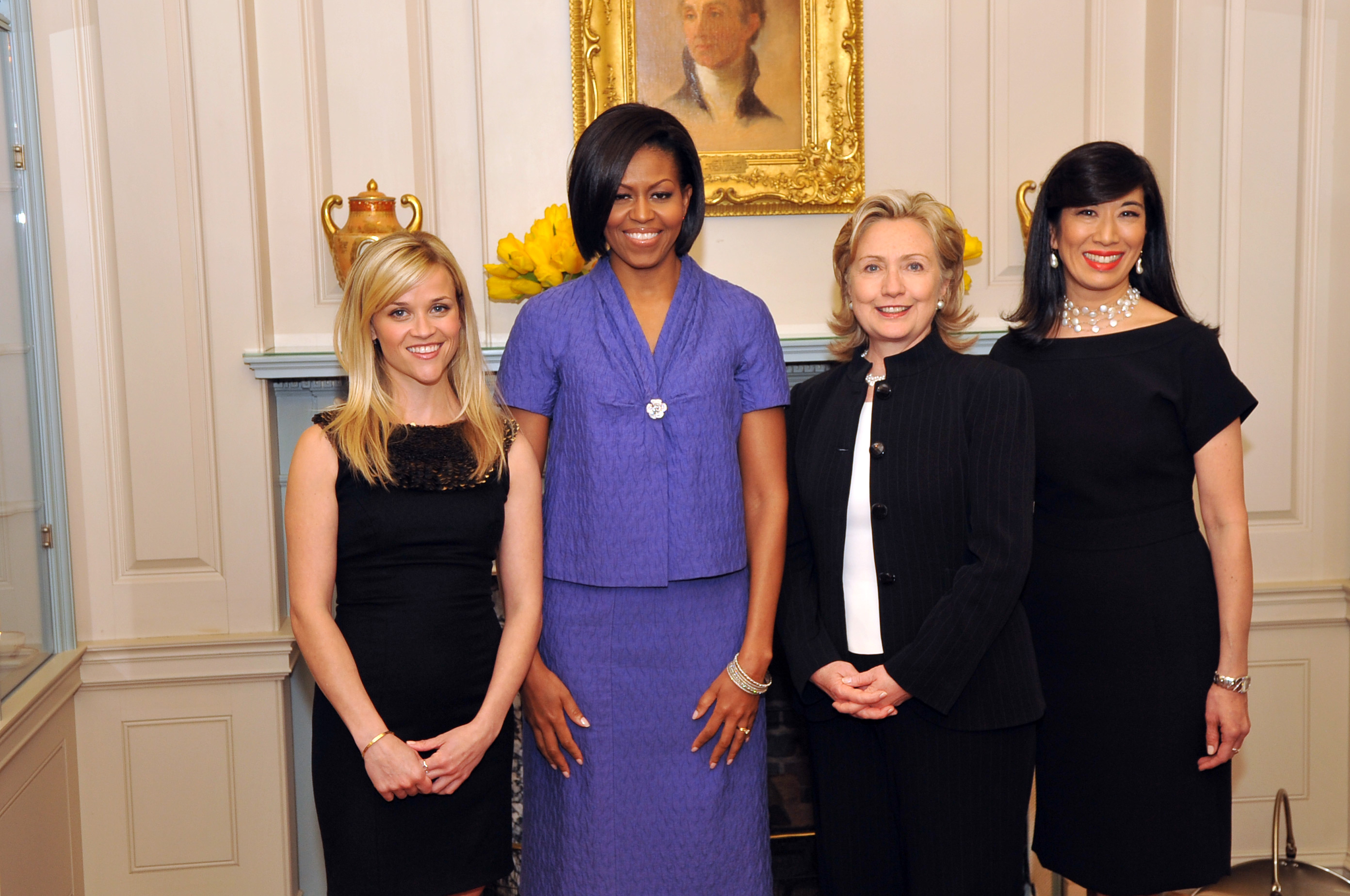 U.S. Secretary of State Hillary Rodham Clinton stands with Avon's Global Ambassador Reese Witherspoon, First Lady Michelle Obama, and Avon's Chairwoman and CEO Andrea Jung at the 2010 International Women of Courage Awards at the U.S. Department of State, Washington, D.C. March 10, 2010.